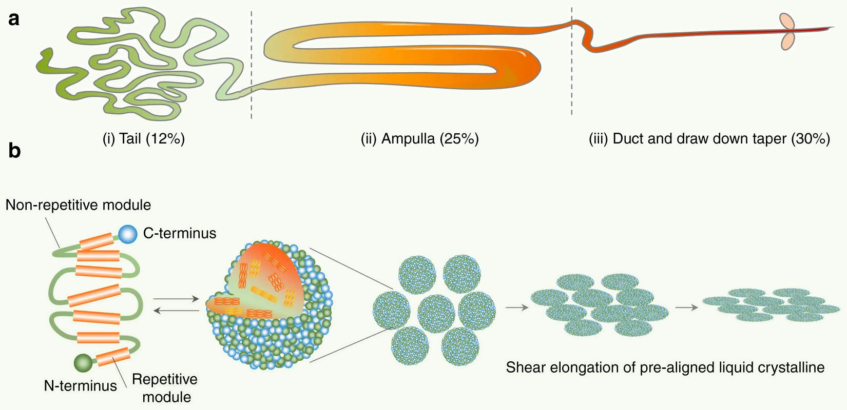 (a) Illustration of a silkworm spinning gland divided into three parts according to the evolution of silk protein during spinning. (b) Schematic model of the natural silk fiber assembly mechanism occurring along the spinning apparatus. The silk proteins are synthesized in the tail and are transferred to ampulla with increased concentration. In this region, the silk proteins are assembled to micelle-like configurations with anisotropic liquid-crystalline properties. Finally, silk fiber formation occurs under shear stress and dehydration conditions during pulling out the nematic silk proteins from the spigot.